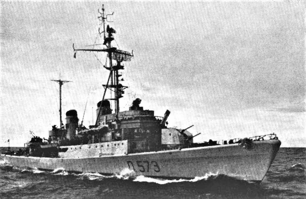 The Italian frigate Castore (D573). Her pennant was later changed to "F553".